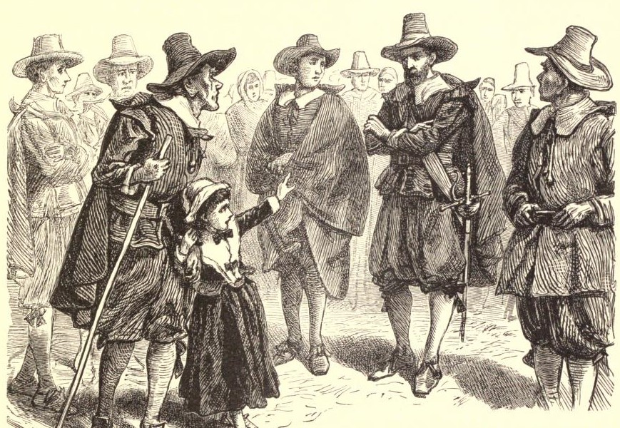 "Captain Alden Denounced," Depiction of Capt. John Alden, Jr. denounced as a witch during the Salem Witch Trials